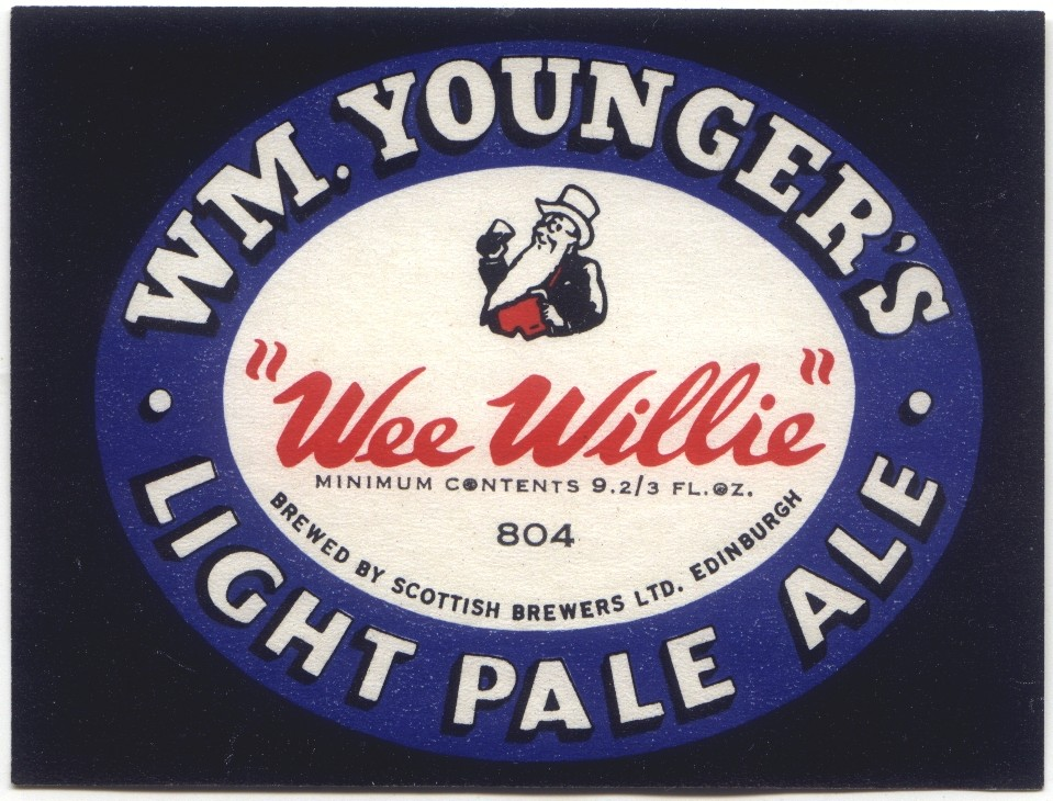 Younger's Light Pale Ale label